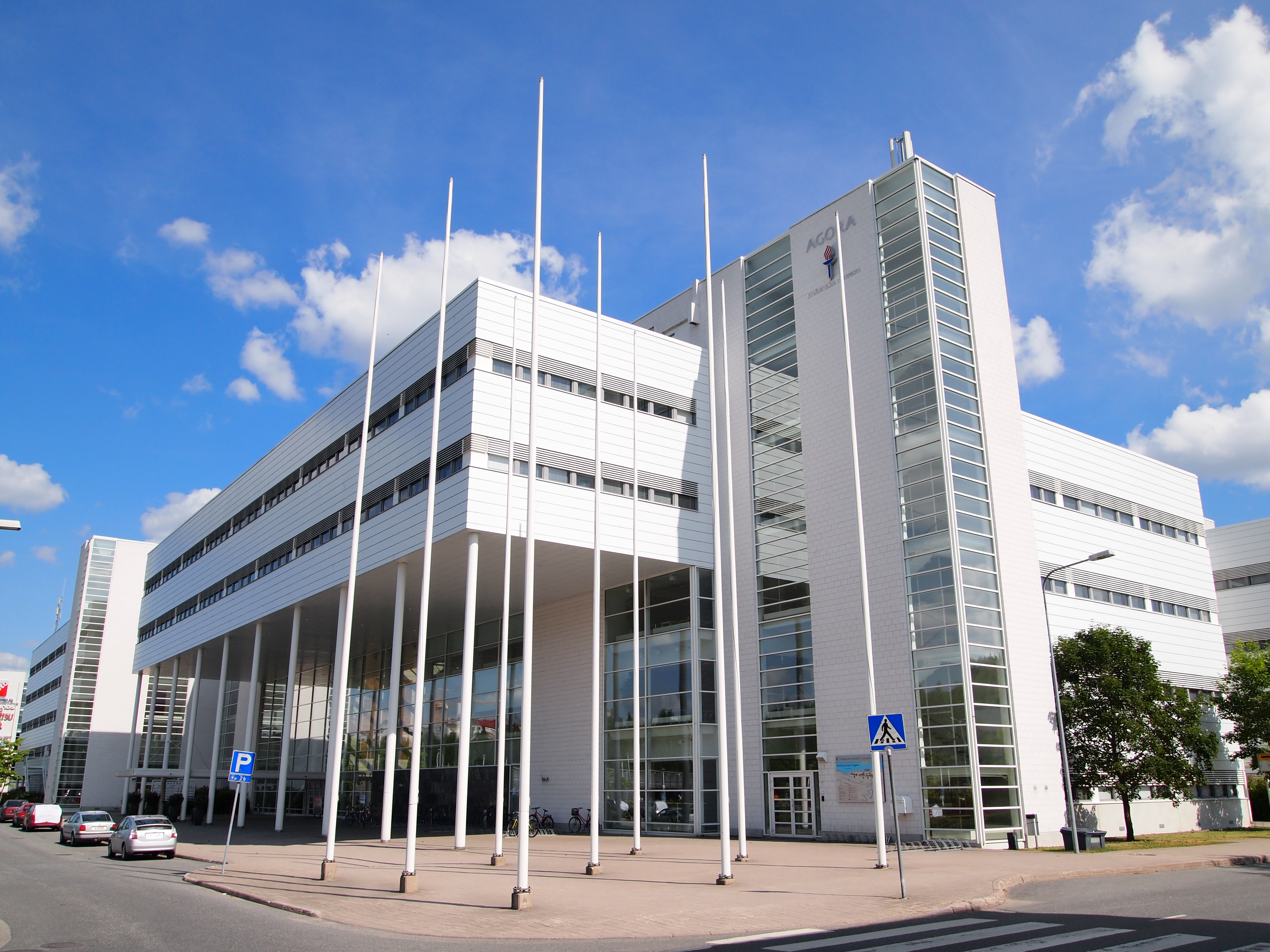 Agora building in Mattilanniemi Campus, University of Jyväskylä. This photograph was taken with an Olympus E-PL1